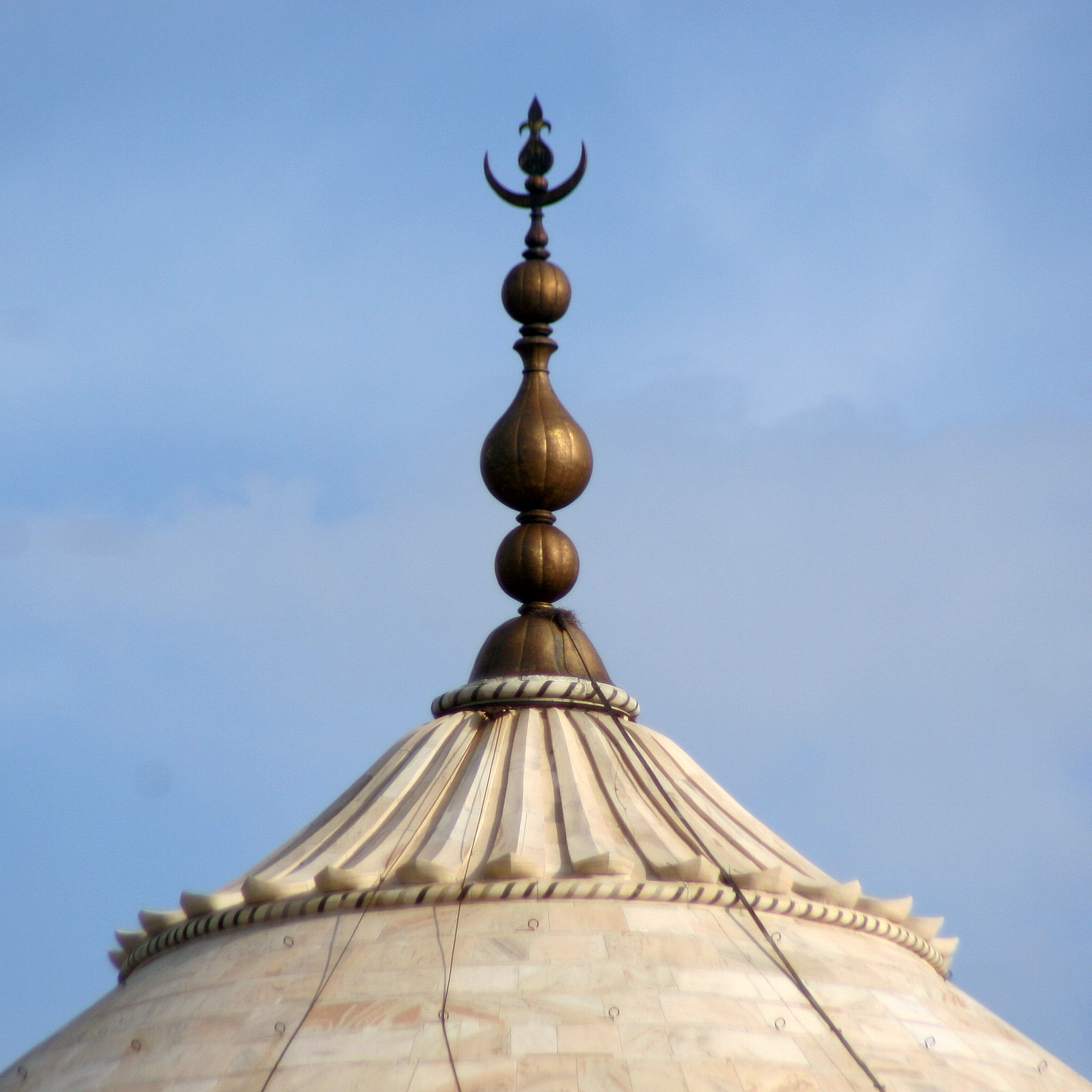 Detail from stone inlays in Taj Mahal.